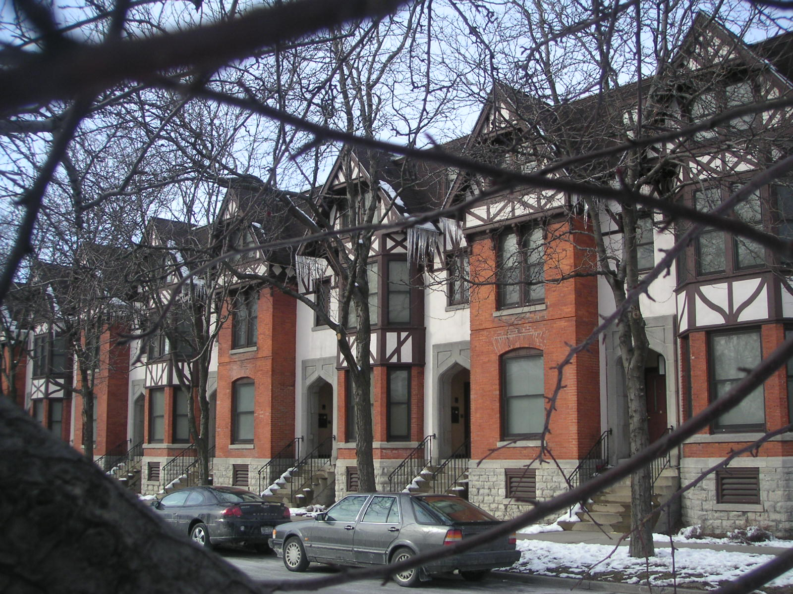 A wintery shot through the trees of row houses in the Hawley-Green neighborhood. Photo taken by me, SirJasalot.